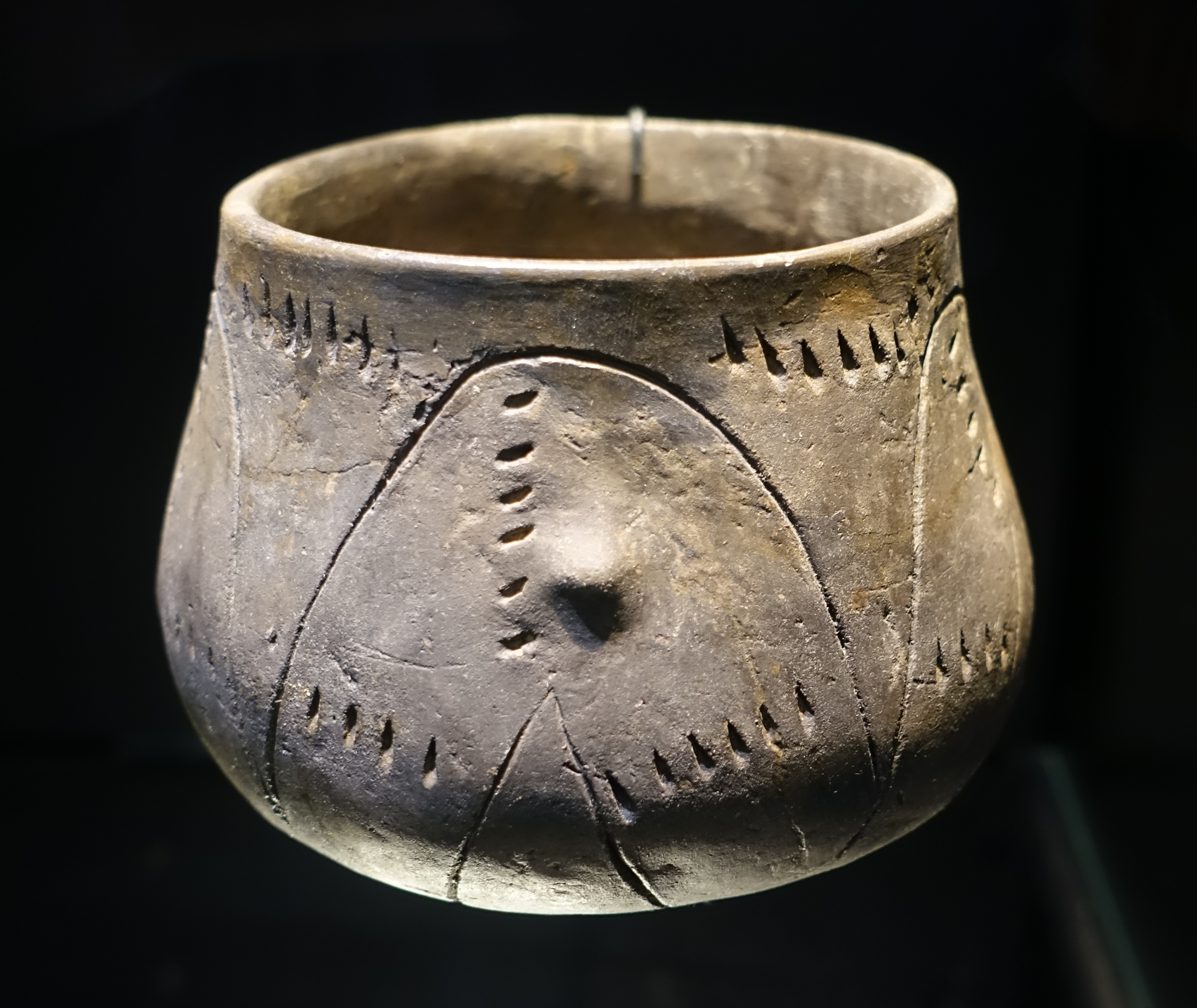 Exhibit in the Landesmuseum Württemberg - Stuttgart, Germany.